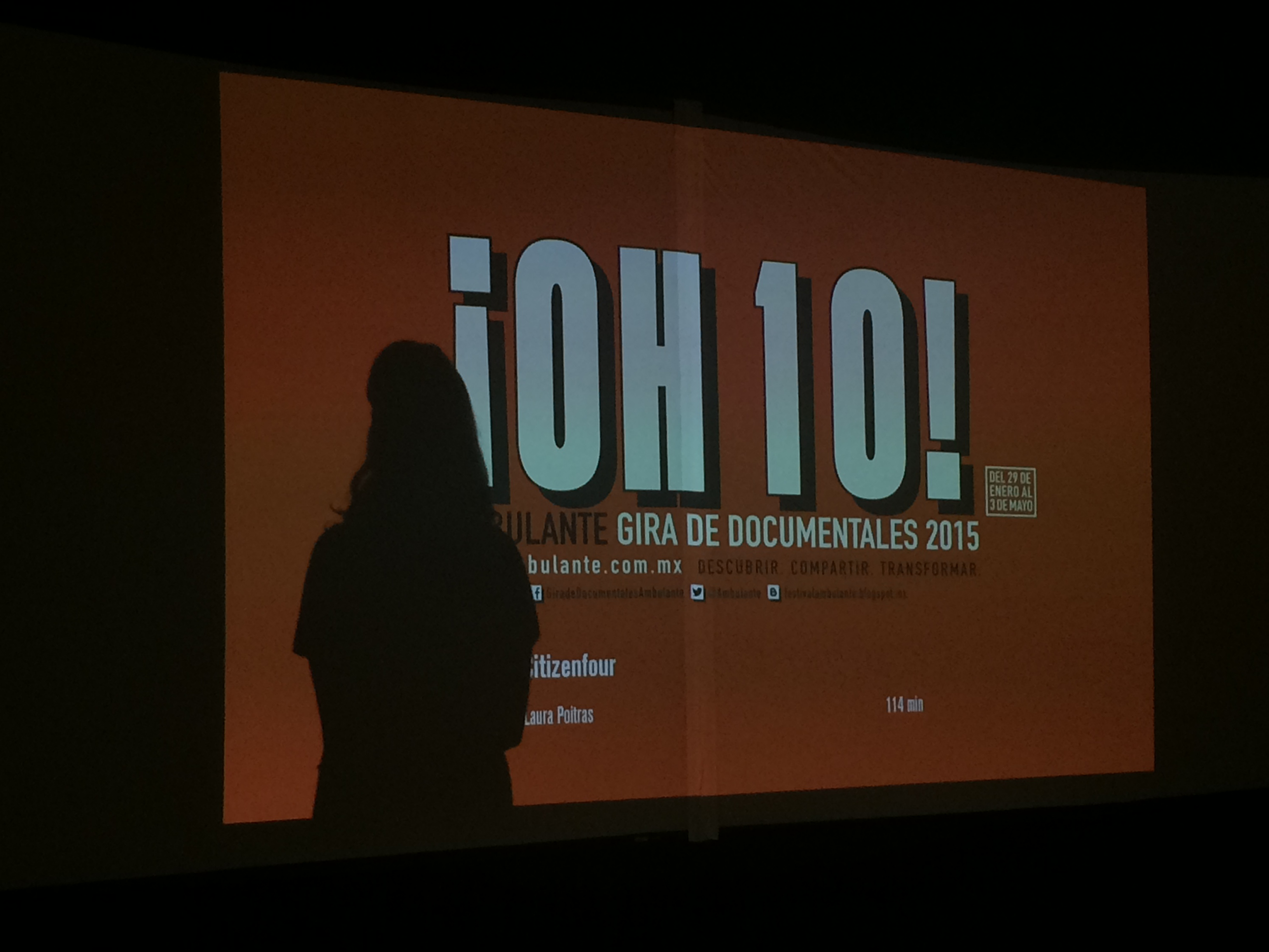 Presentation of the documentary "Citizenfour" in Ambulante. Puebla, 2015.